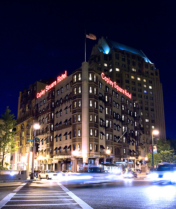 Copley Square Hotel, Boston, at night.